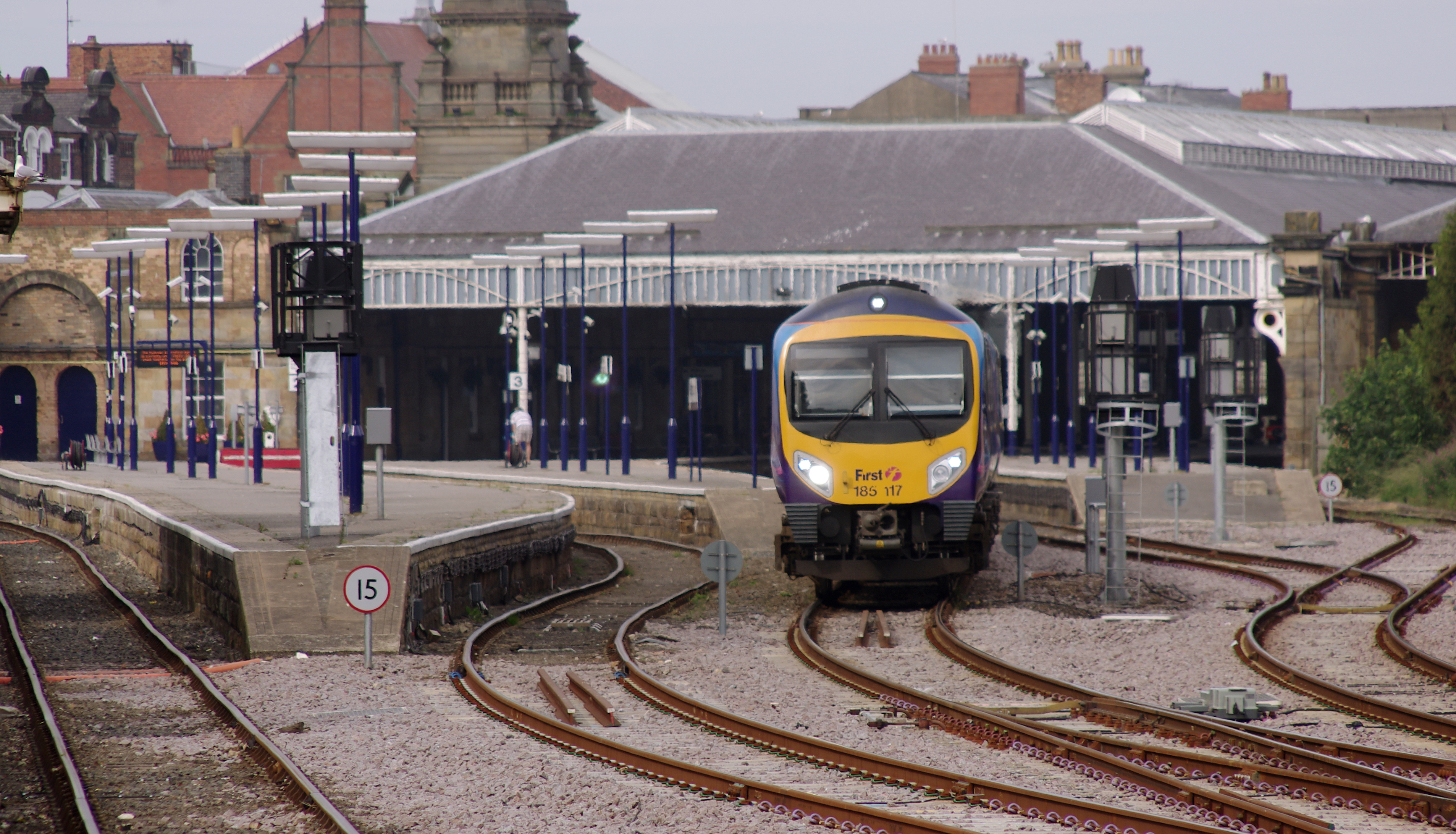 First TransPennine Express Desiro DMU 185117 departs Scarborough railway station with a service to Liverpool.